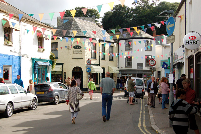 Market Place, Padstow